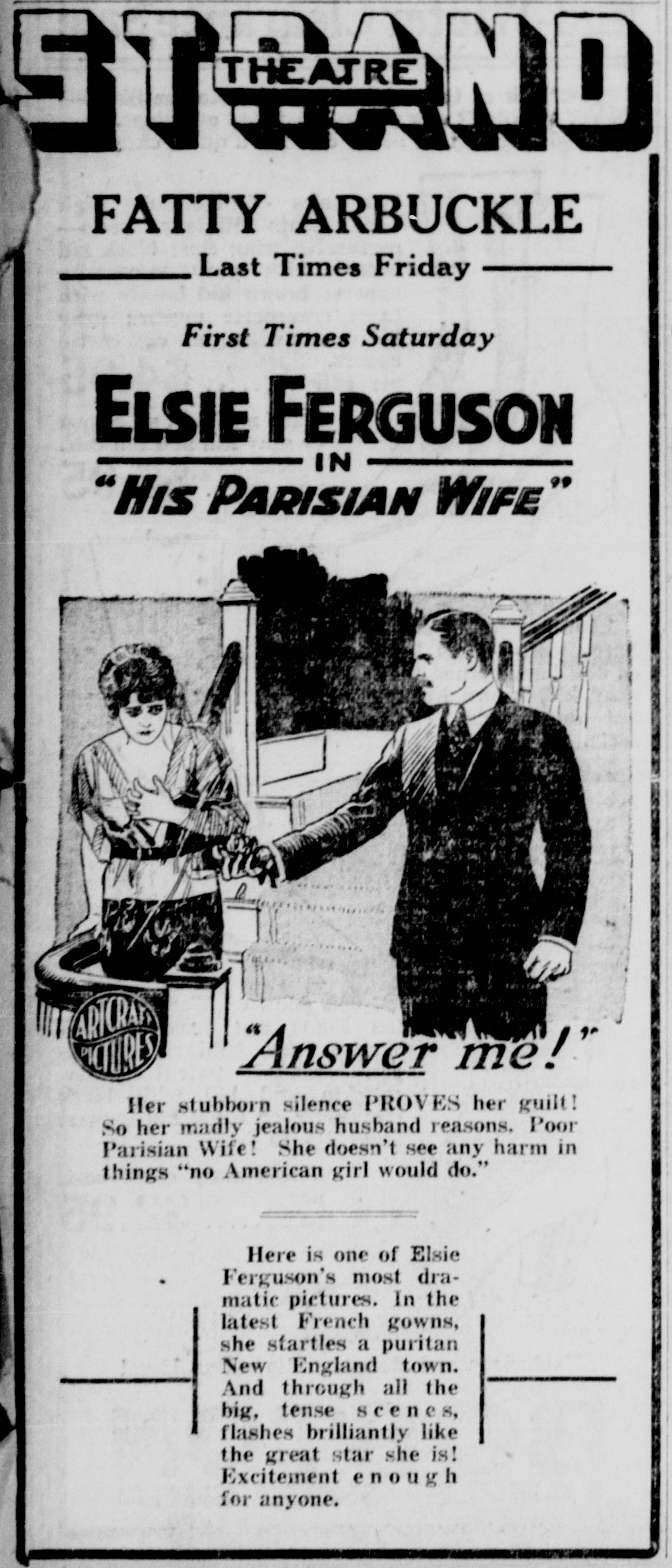 Newspaper advertisement for His Perisian Wife